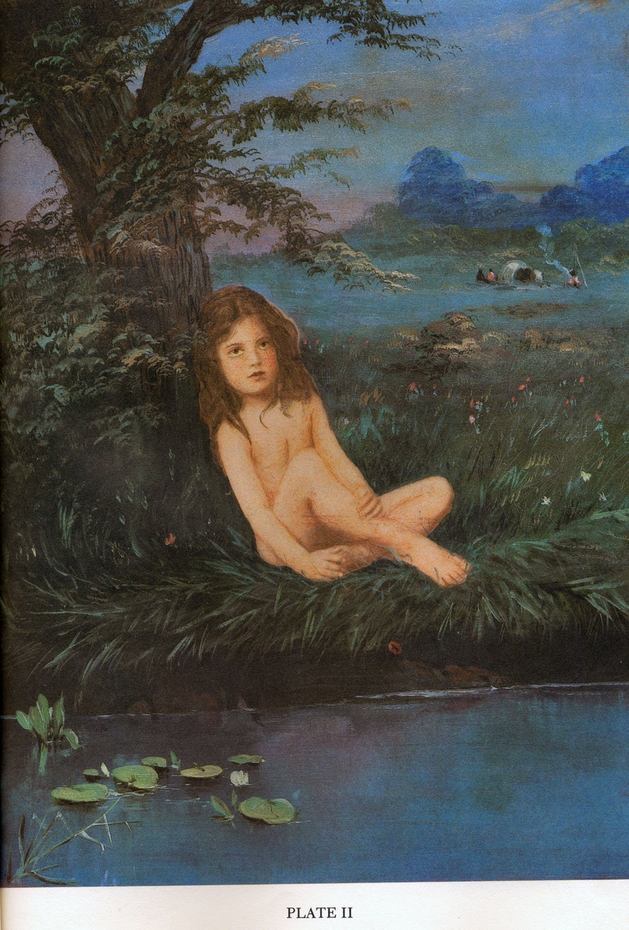 Evelyn Hatch as a gypsy sitting by a brook, 29 july 1879